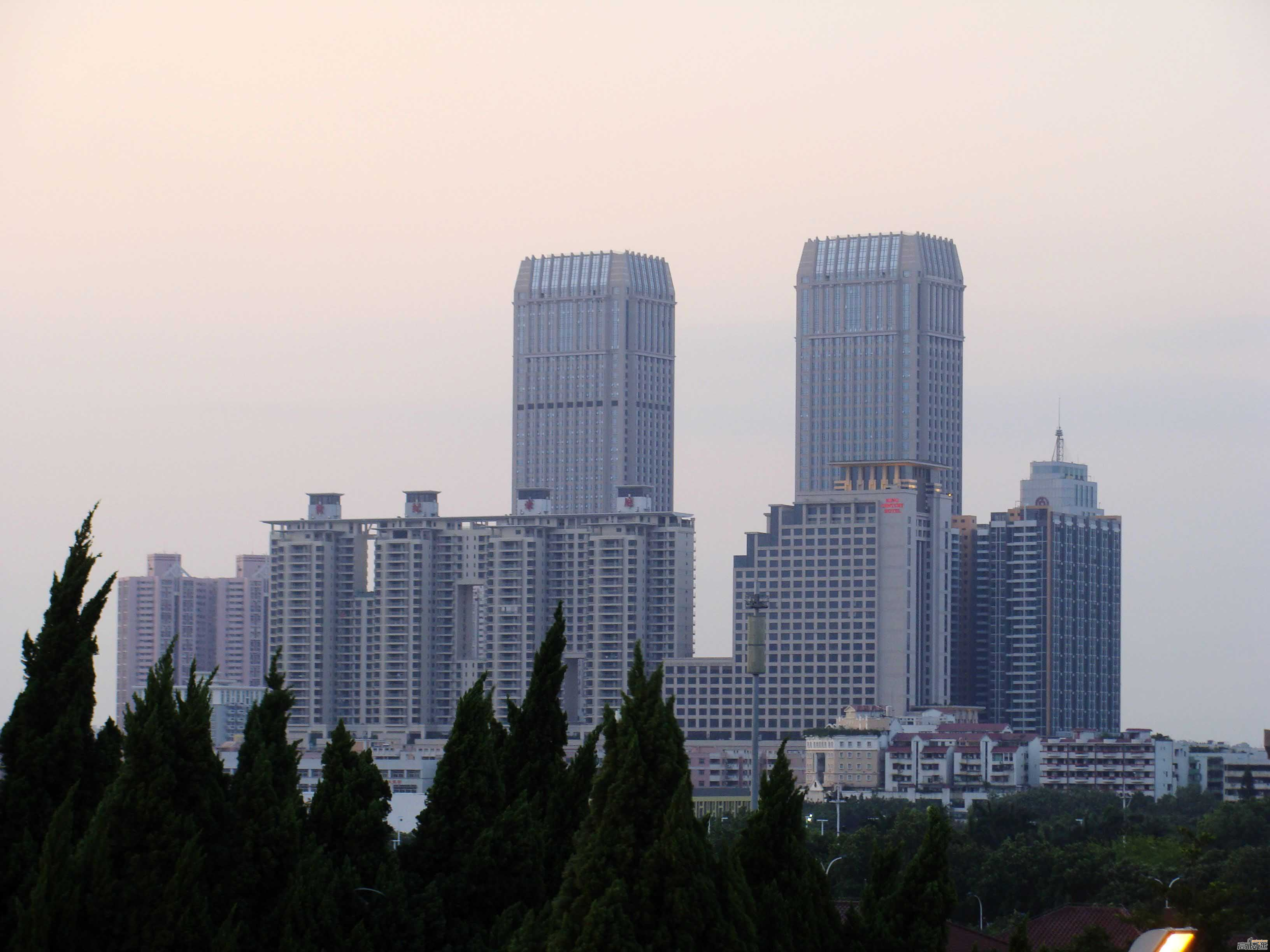 Lihe Plaza - located in Zhongshan City , Guangdong , Chona